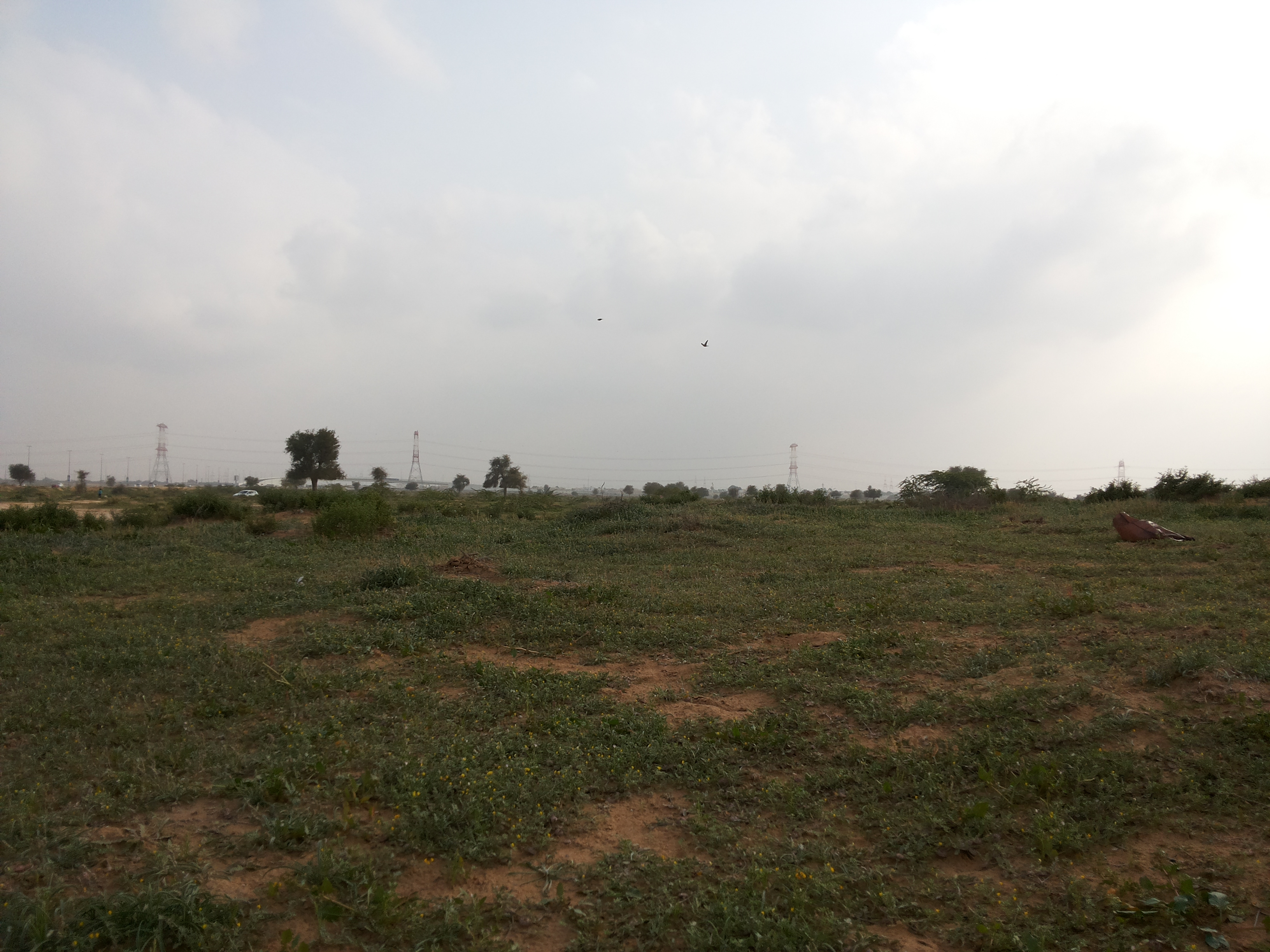 Desert after winter rain Ajman UAE 2014